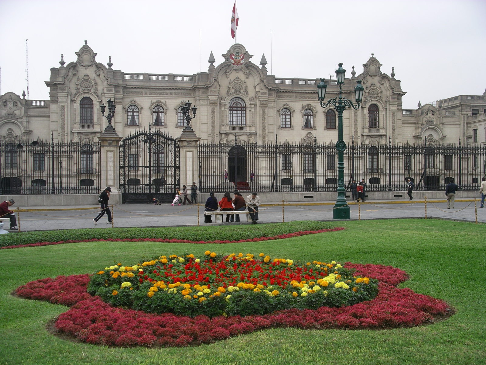 The presidential palace of Peru in Lima.